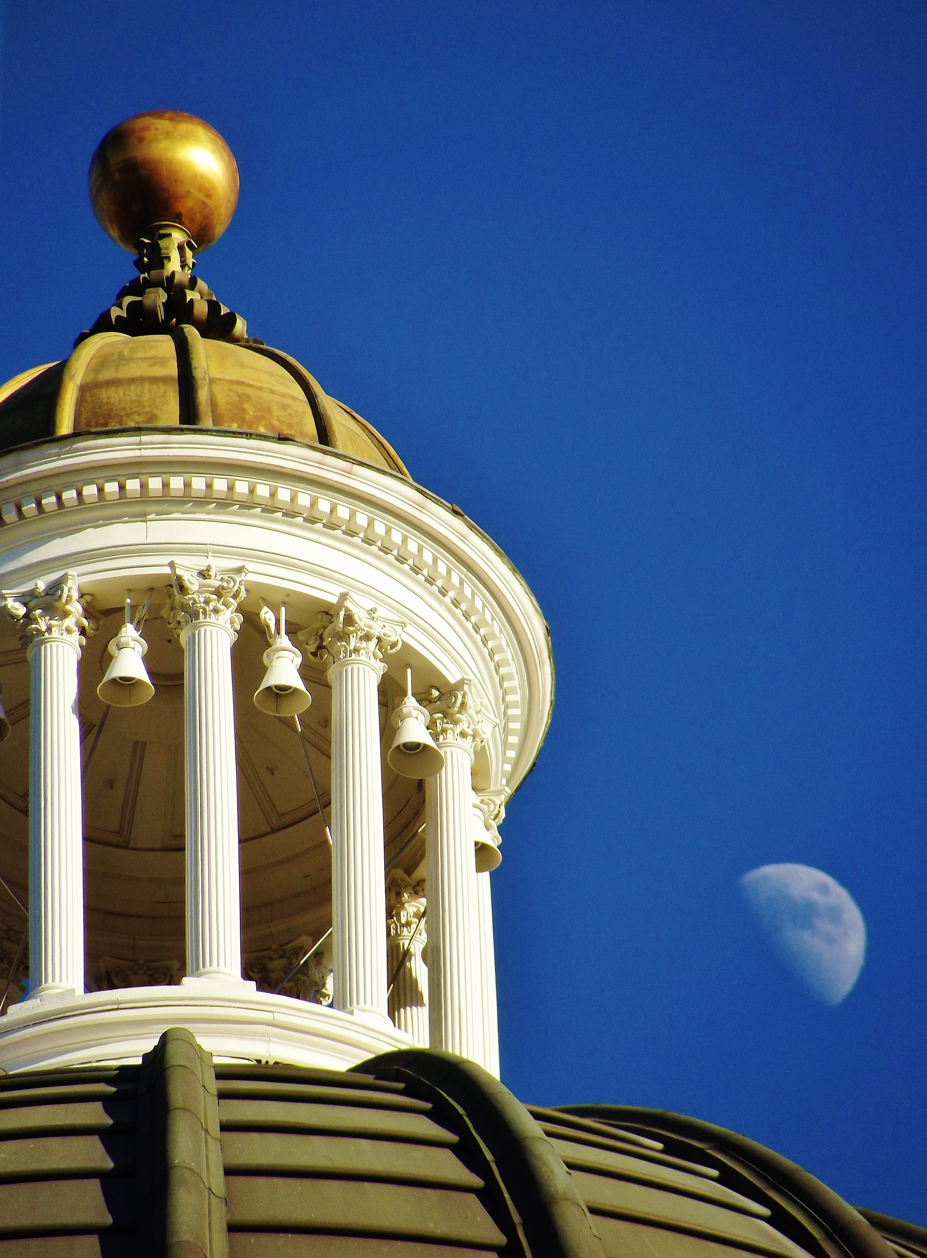 California State Capitol